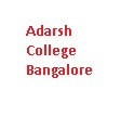 Adarsh College Bangalore